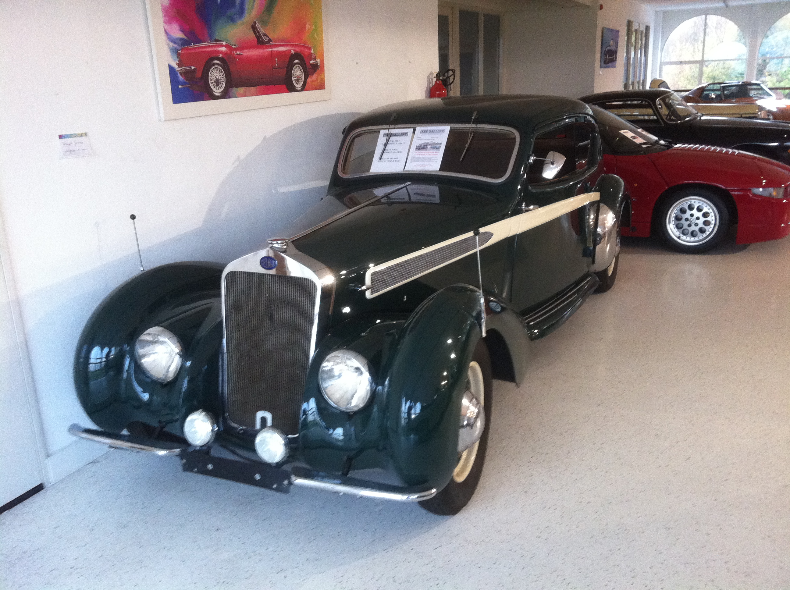 Photographed at The Gallery in Brummen, The Netherlands.